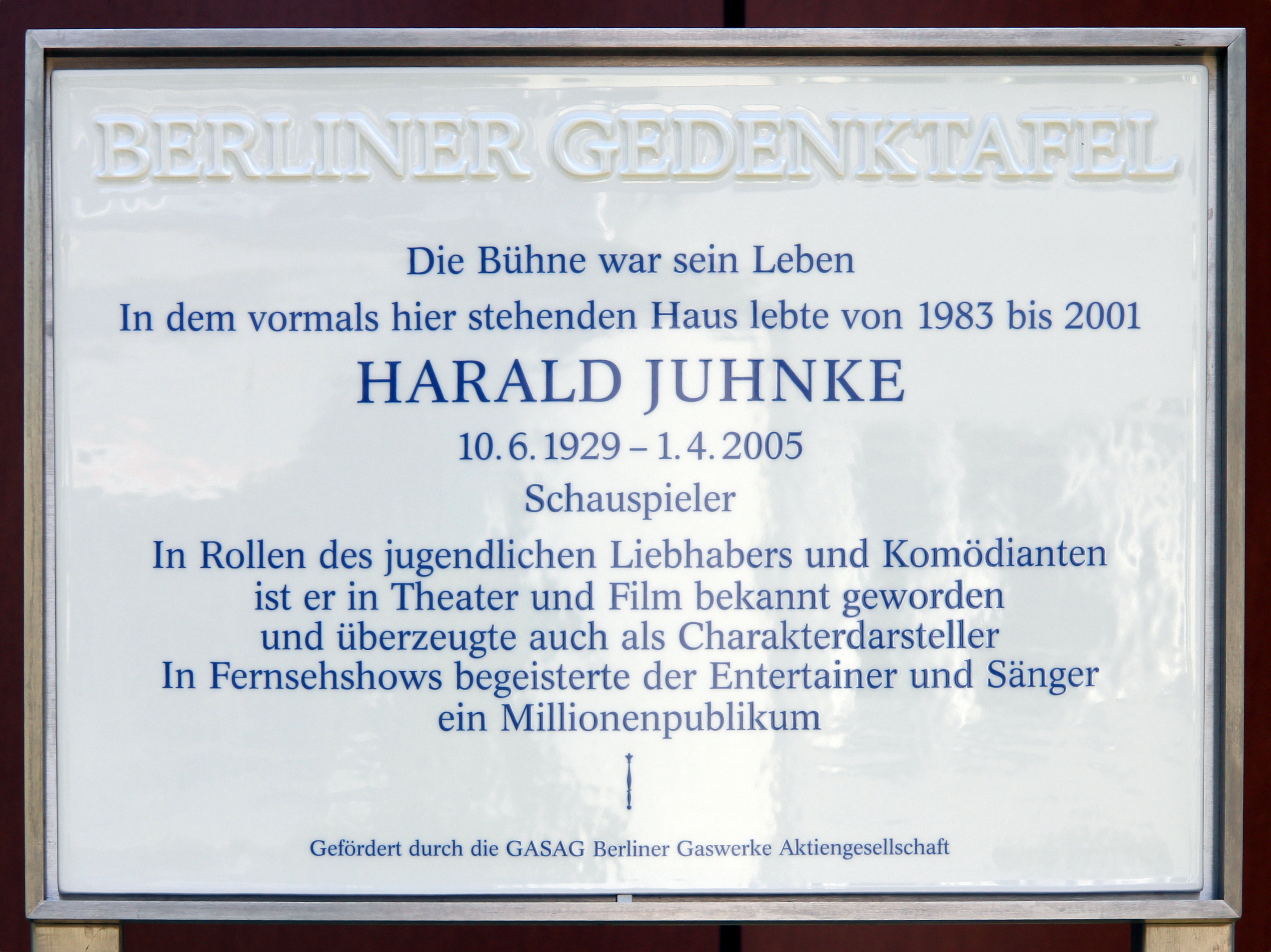 Berlin memorial plaque, Harald Juhnke, Lassenstraße 1, Berlin-Grunewald, Germany